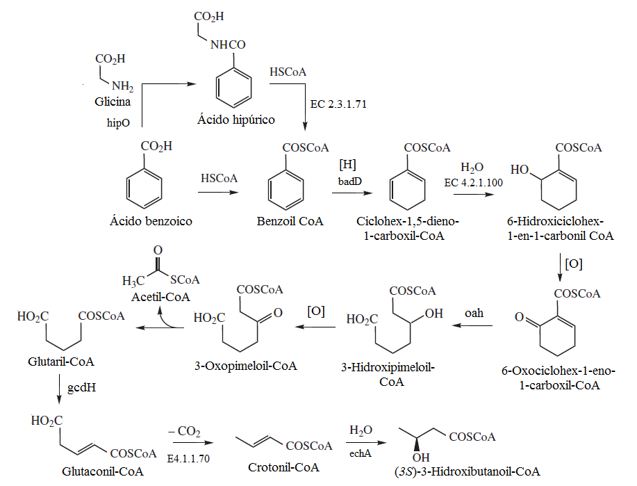 Benzoyl CoA degradation